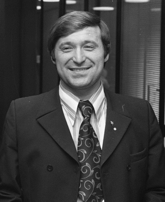 Petar Zhekov